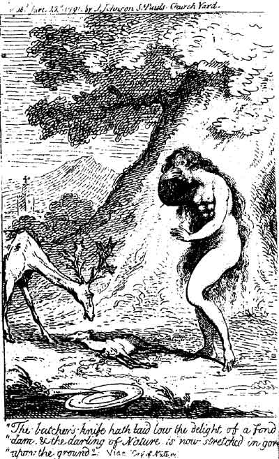 Frontispiece of The Cry of Nature, book by John Oswald (activist). Caption reads: "The butcher's knife hath laid low the delight of a fond dam, & the darling of Nature is now stretched in gore upon the ground."